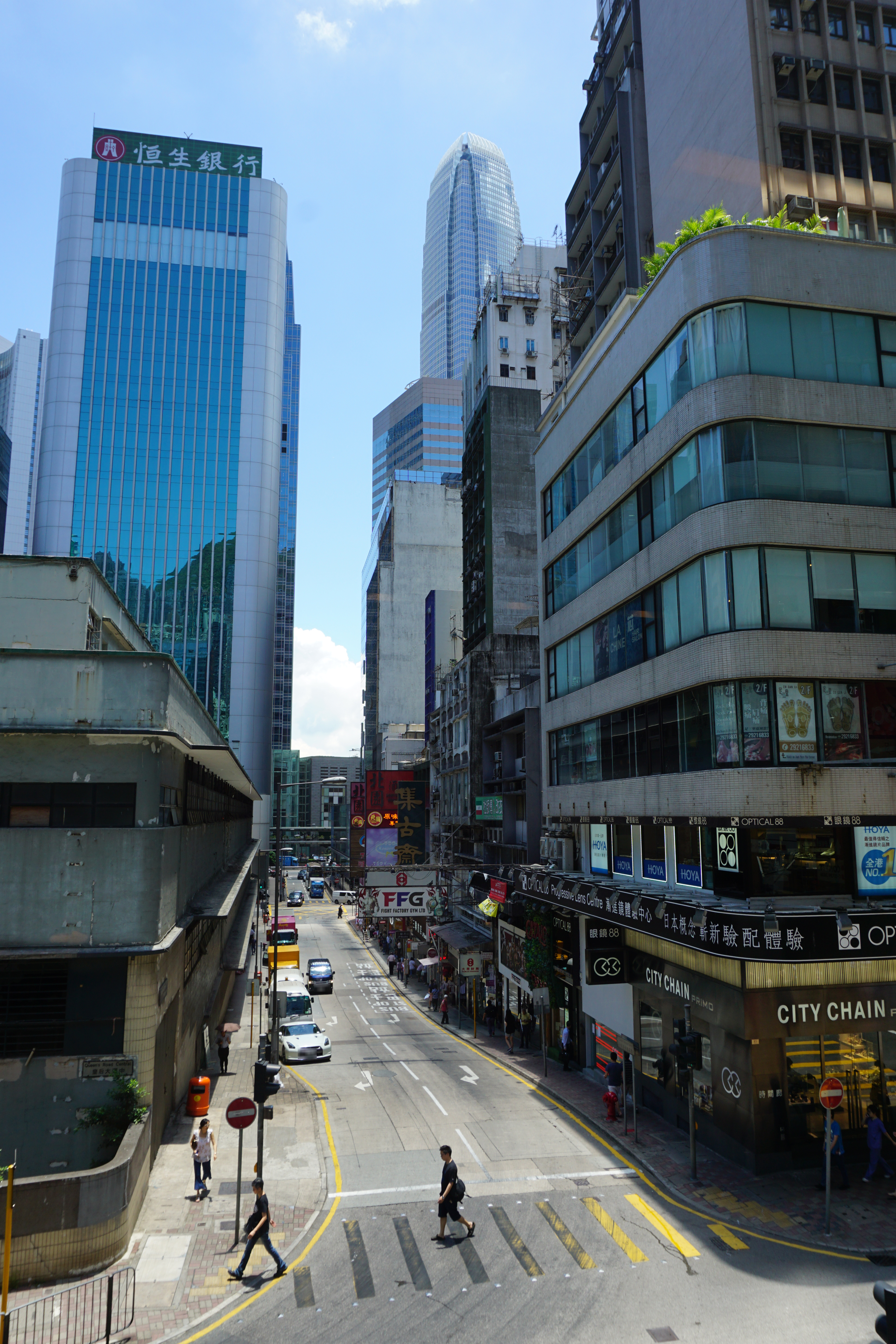 Queen Victoria Street in Central, Hong Kong.